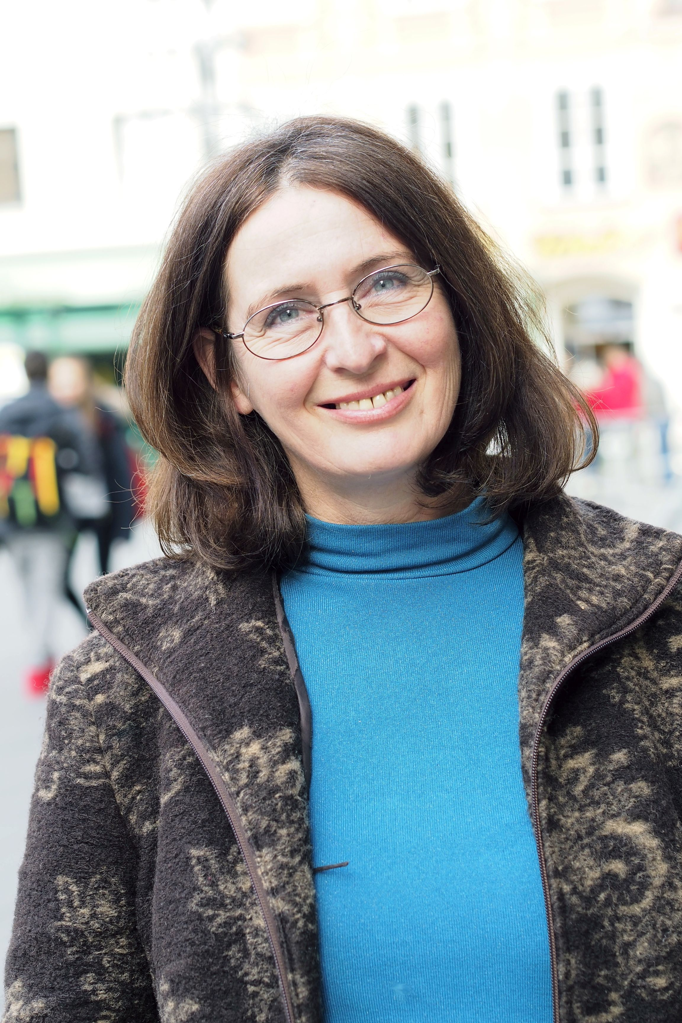 Elke Kahr, 2016